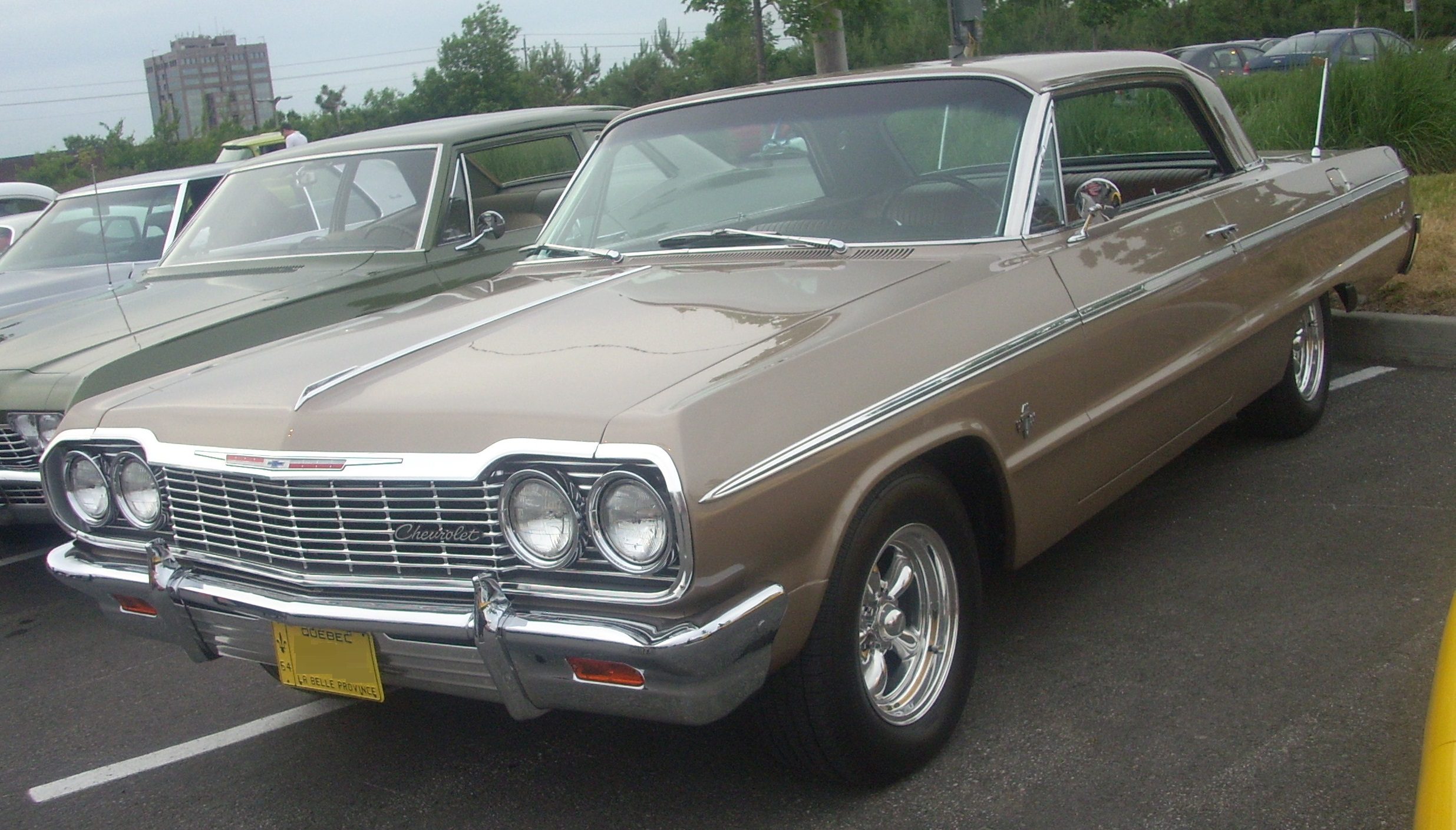 1964 Chevrolet Impala photographed in Laval, Quebec, Canada at Centropolis Laval.